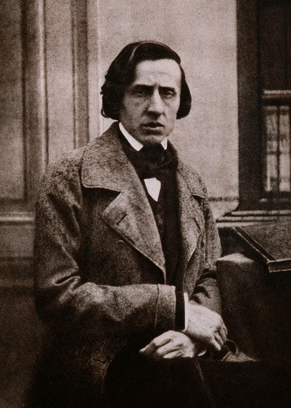 The only known photograph of Frédéric Chopin